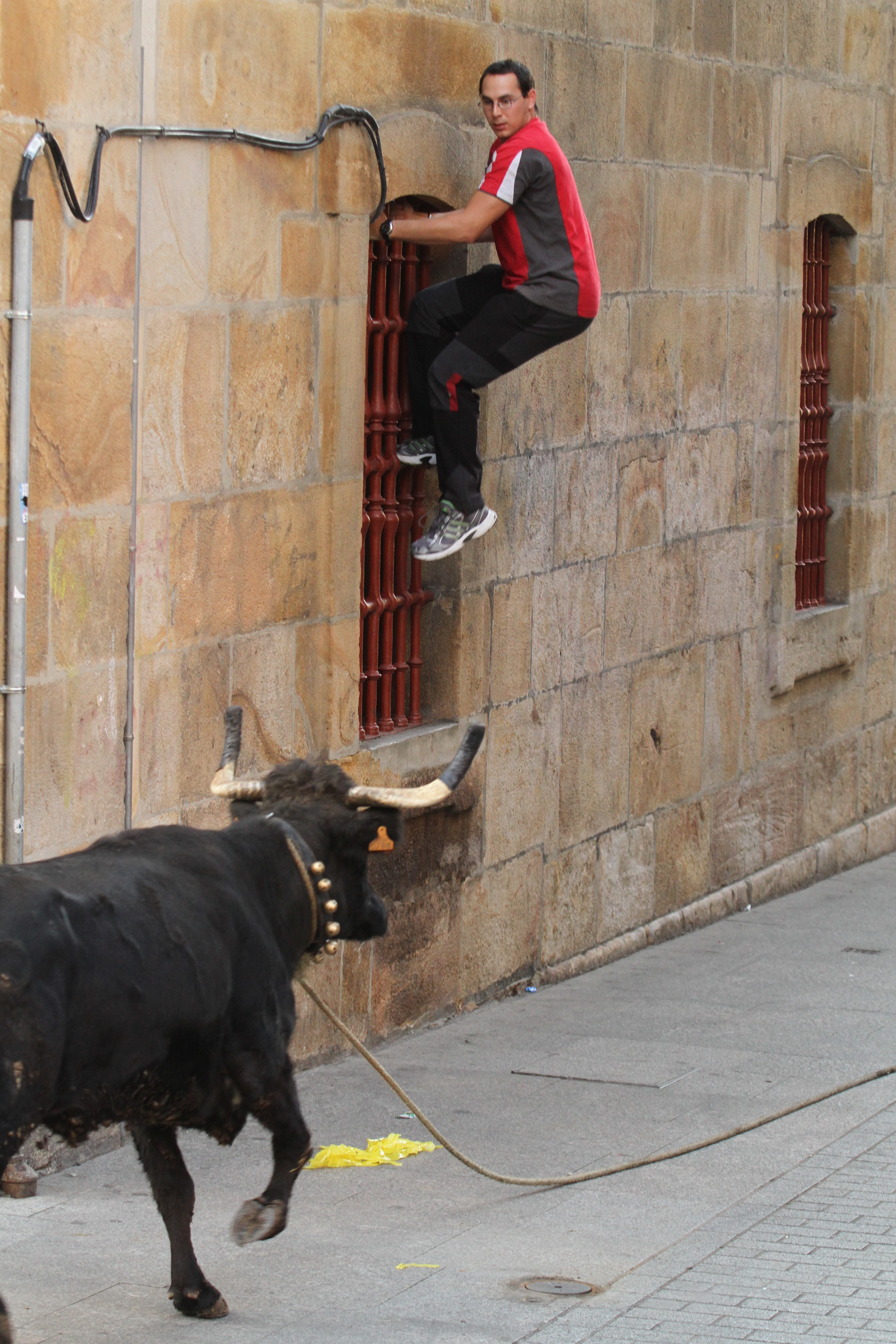 Sokamuturra in Oñati, Gipuzkoa.